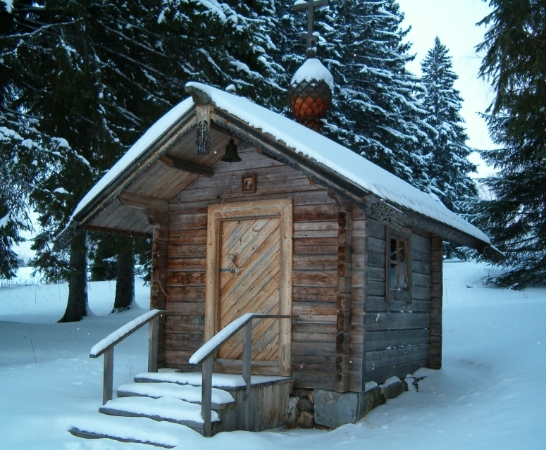 Chapel of Saint Nicholas in New Valamo (or New Valaam) monastery in Heinävesi, Finland